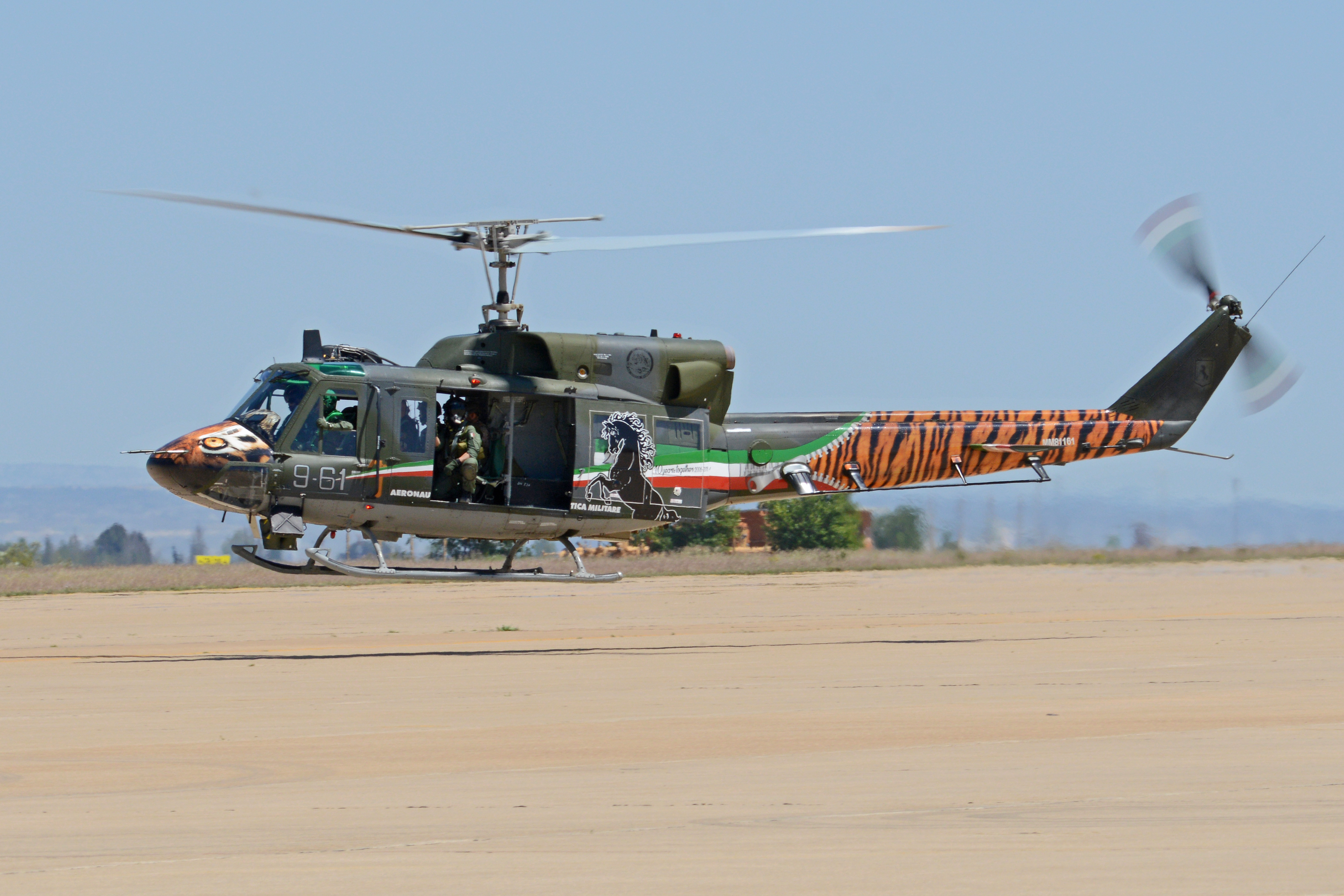 c/n 5818. Previously designated as an AB.212ICO. Operated by 21 Gruppo, Italian Air Force, based at Grazzanise. Seen during the 2016 NATO Tiger Meet (NTM) held at Zaragoza Air Base, Spain. 20th May 2016